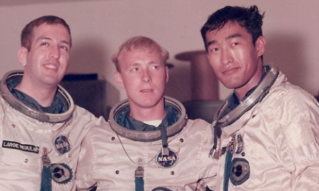 Frank Janes, Paul Kruppenbacher, and John Hirasaki suited up for incapacitated Apollo astronaut water egress tests on October 5, 1966, in swimming pool at Ellington Air Force Base (Photo Credit: NASA S-66-56166).